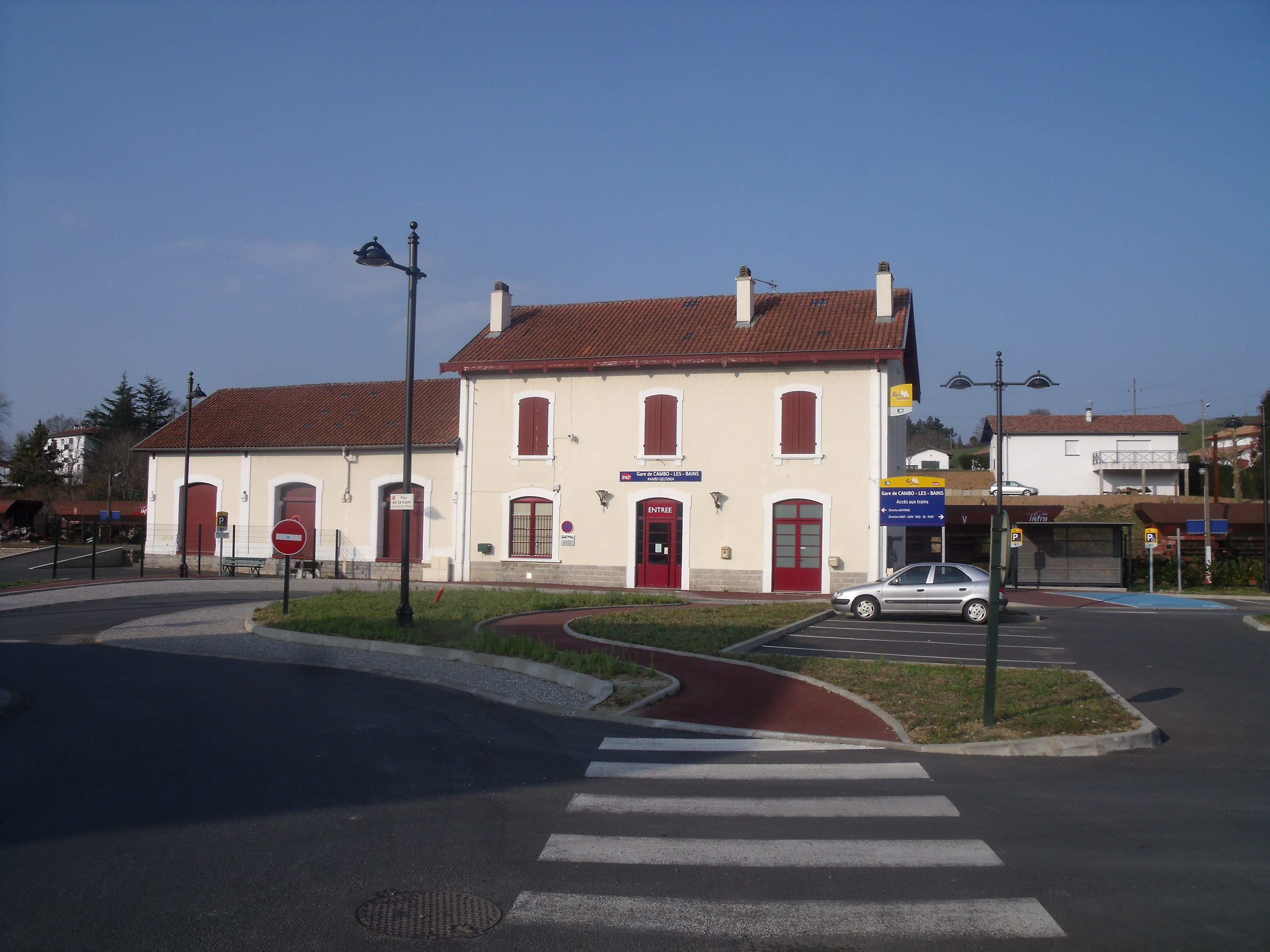 The station of Cambo-les-Bains; Lapurdi-Labourd, Basque Country; Pyrénées-Atlantiques, France.